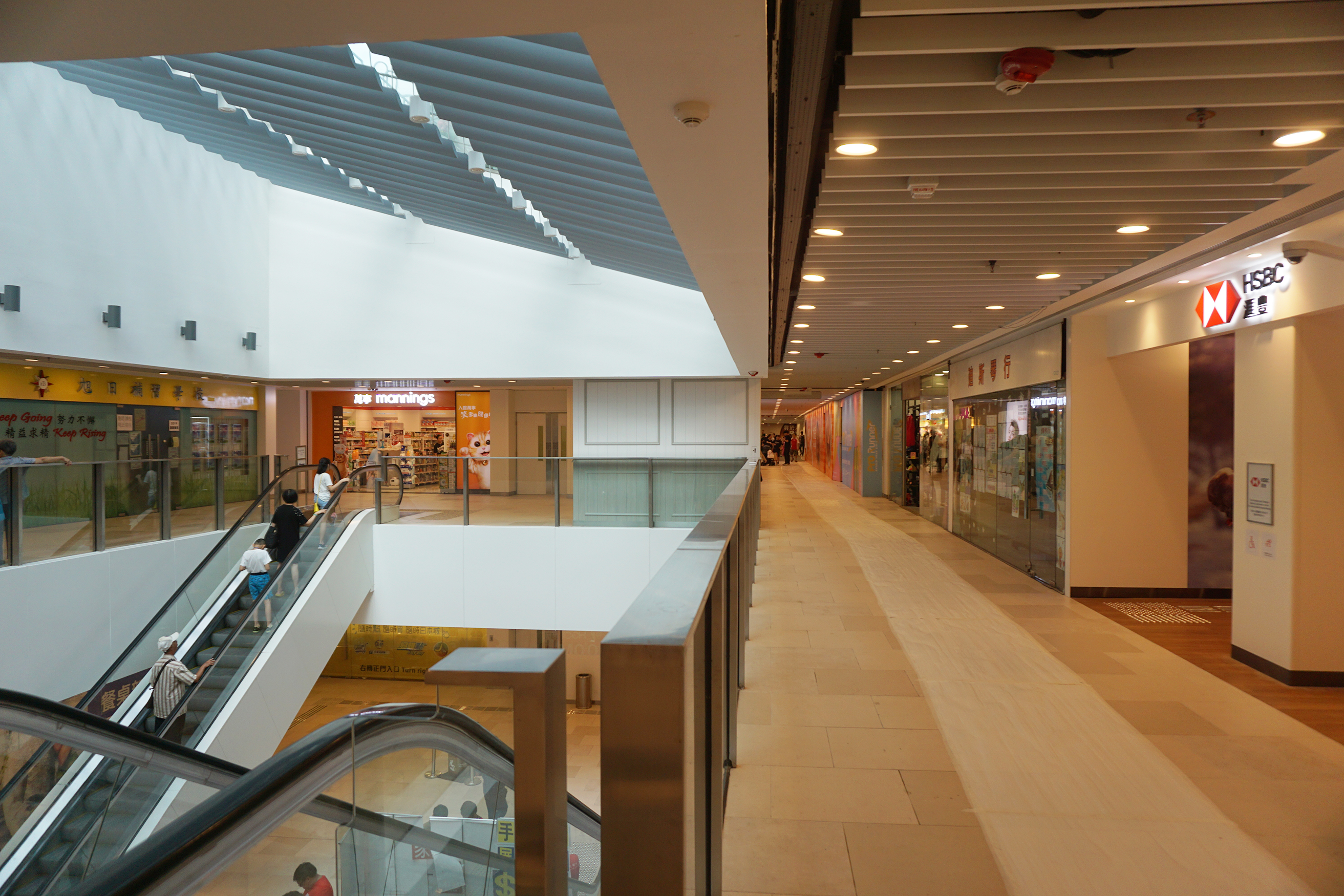 Nam Cheong Place in Sham Shui Po, Hong Kong.